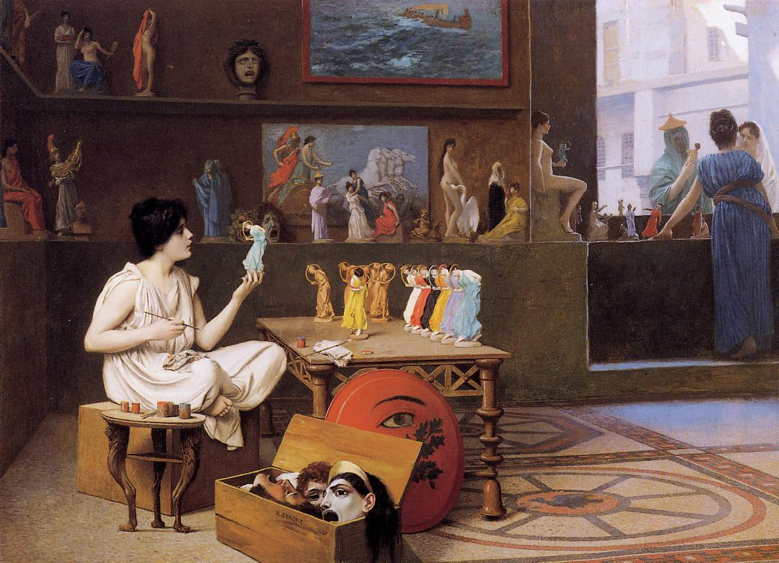 first version